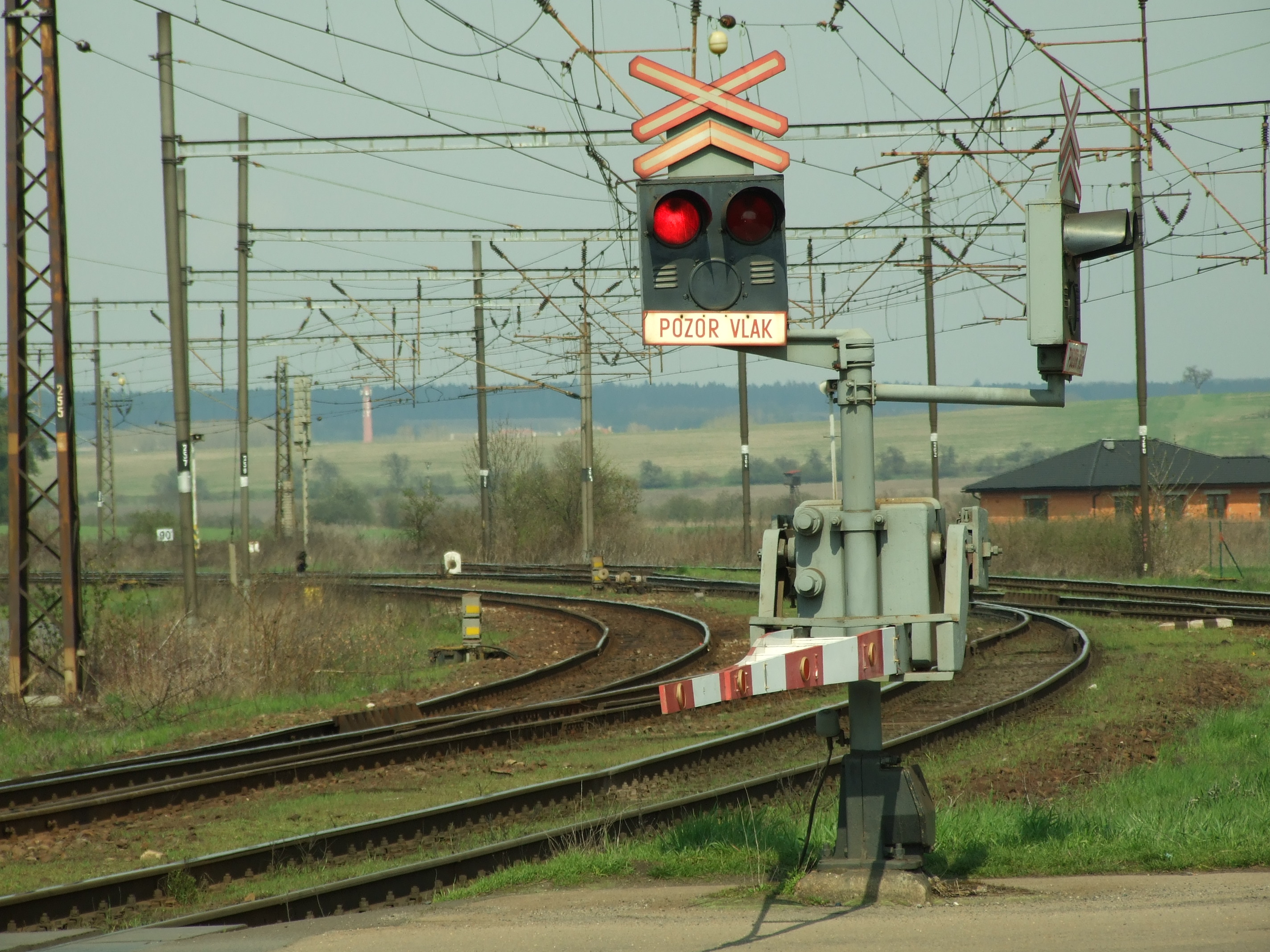 Rail/Road crossing near Všetaty train station, Mělník District, Central Bohemian Region, CZ